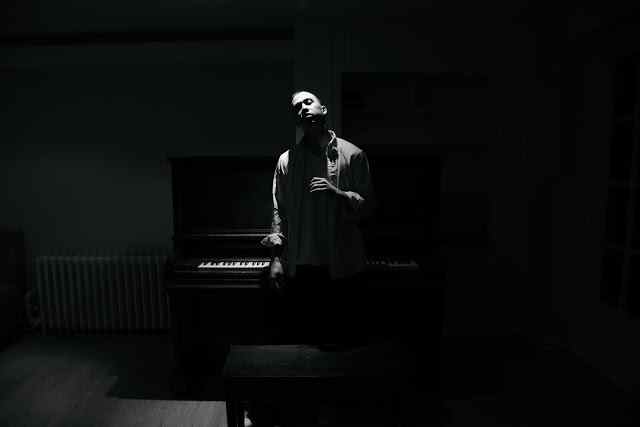 George Nozuka recording artist